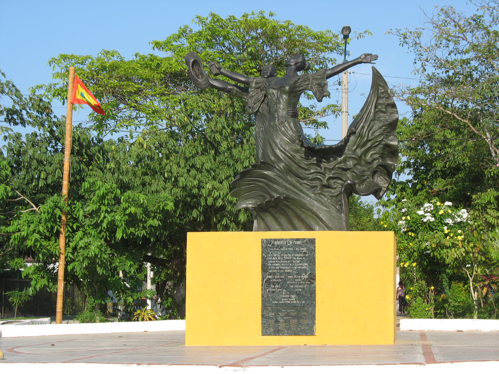 Barranquilla Monument to Cumbia